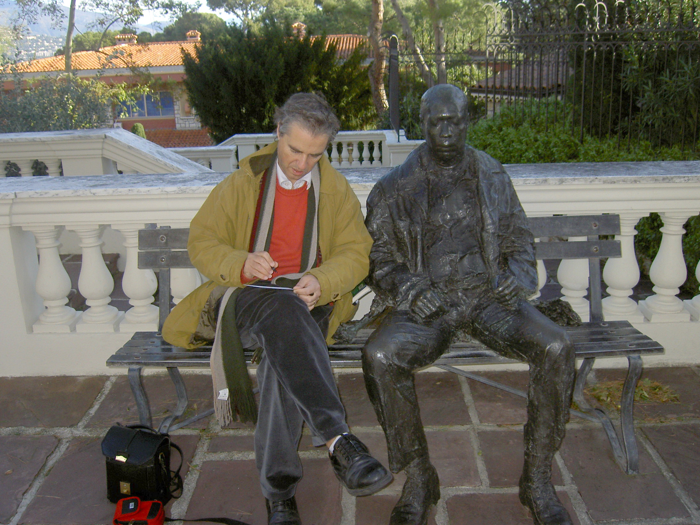 Dominique Sorrente - Man on the bench